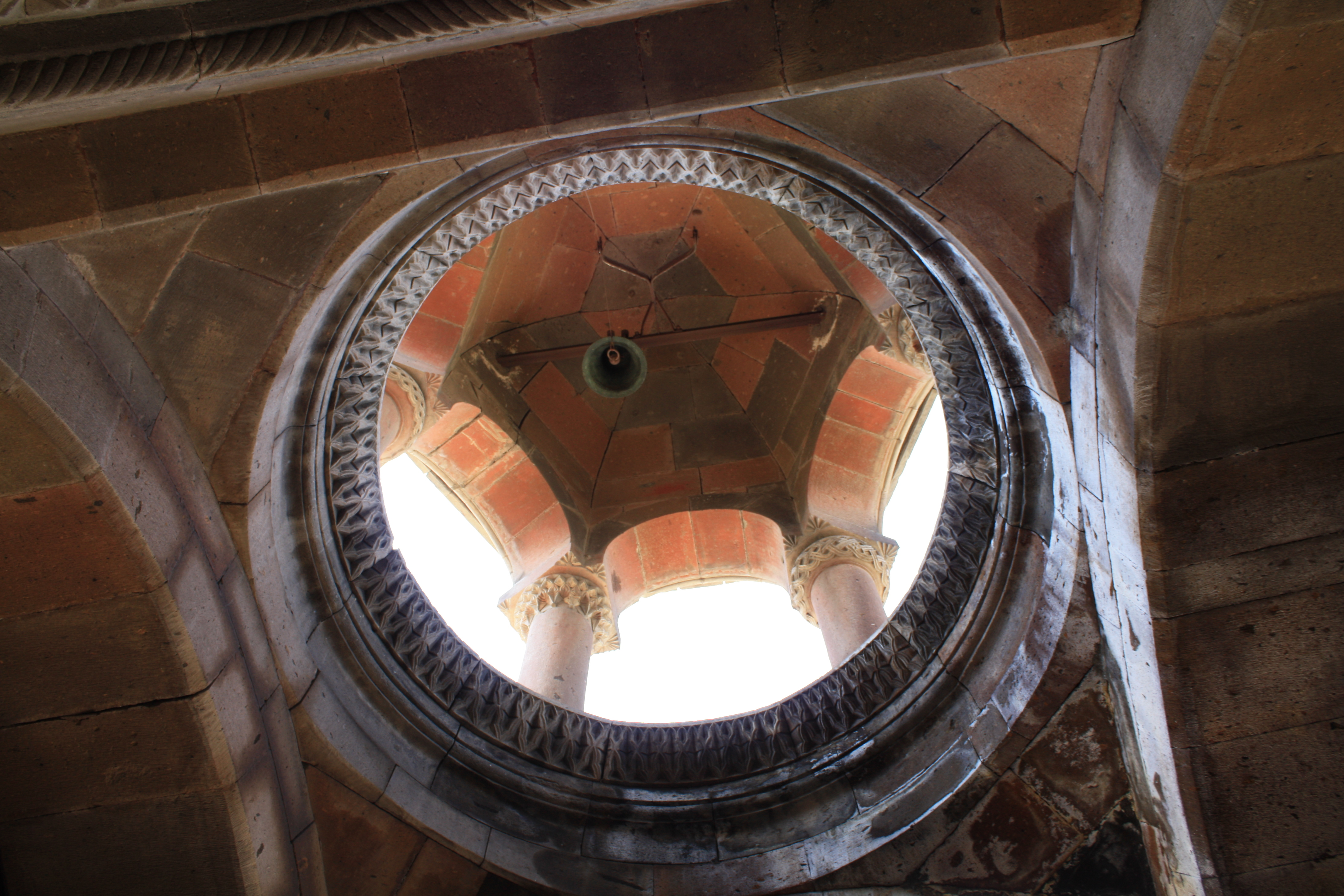 Shoghakat Belltower interior, Echmiadzin, Armenia